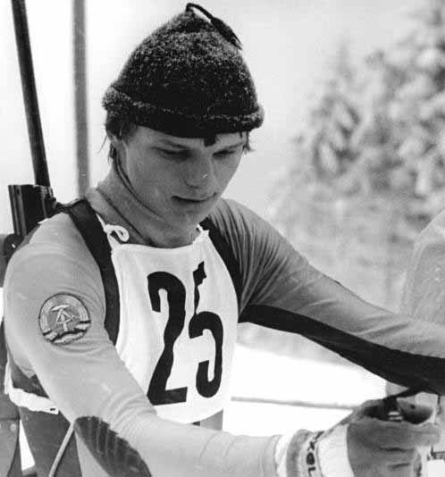 Jens Steinigen (1966), German biathlet (cropped from File:Bundesarchiv Bild 183-1985-0222-022, Jens Steinigen.jpg